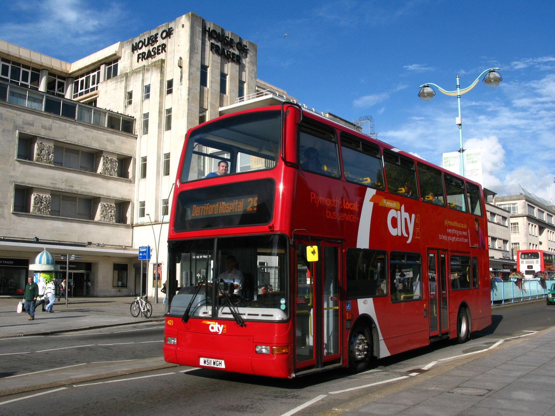 Plymouth Citybus 421 (W511 WGH), an ex London Volvo B7TL with Plaxton president dual-door bodywork, pulls away from its stop on Royal parade, plymouth, on a service to Derriford Hospital. It is one of the first buses to be painted in the new Plymouth livery initiated by the Go Ahead Group after it took over the company from the city council.